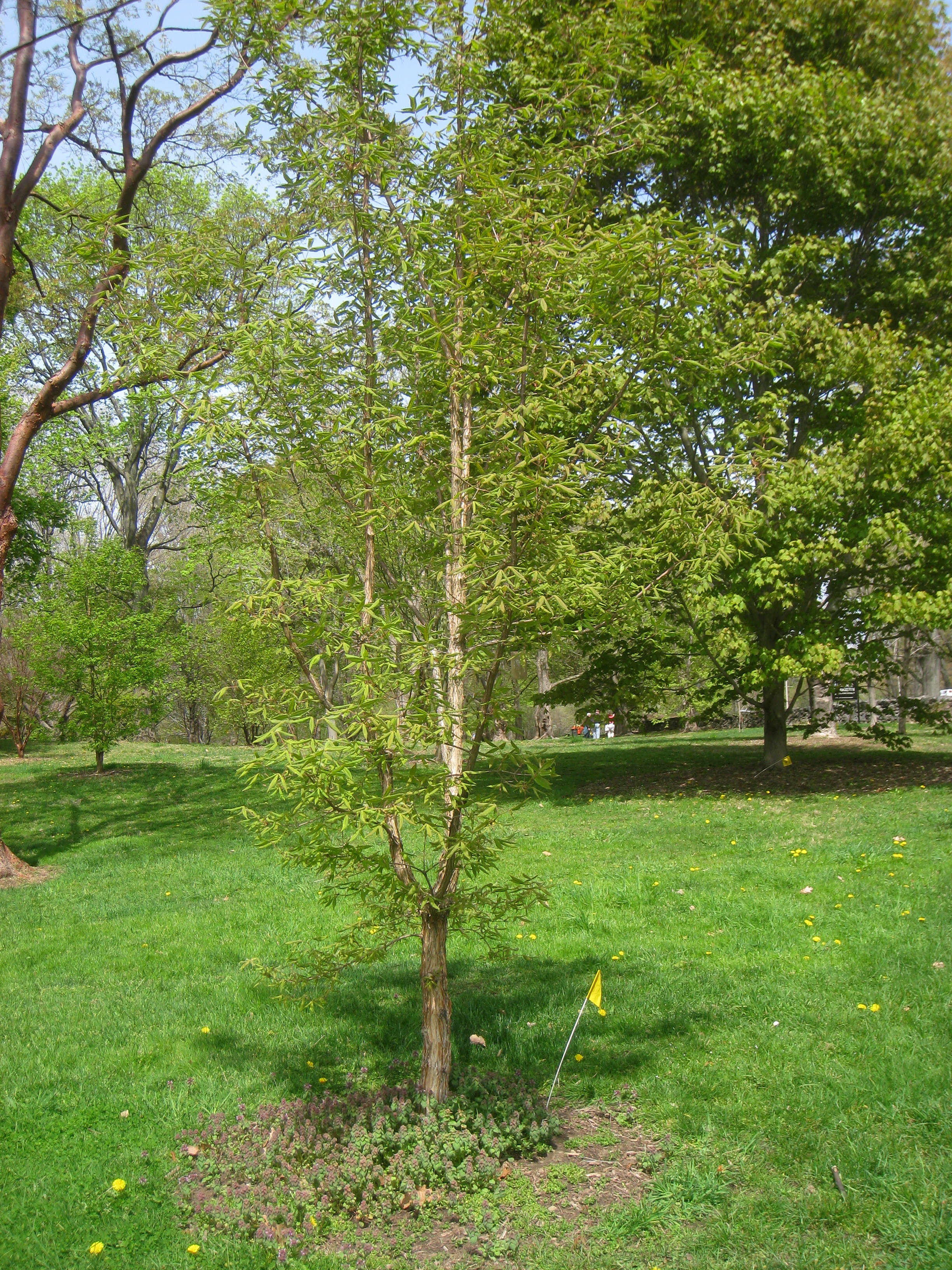 Acer triflorum, Arnold Arboretum, Jamaica Plain, Boston, Massachusetts, USA.